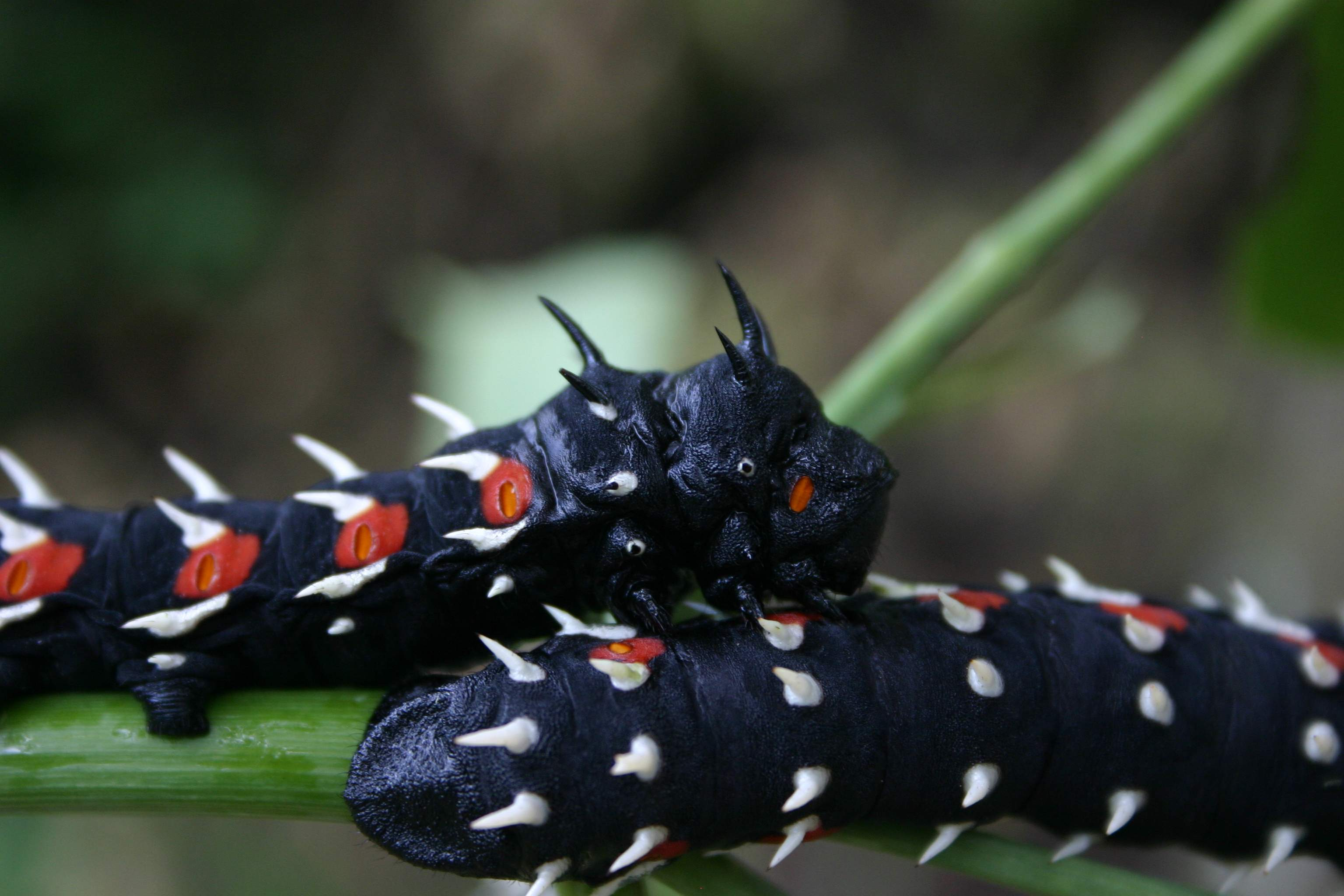 Bunaea alcinoe larvae feeding on Cussonia sphaerocephala - Johannesburg garden